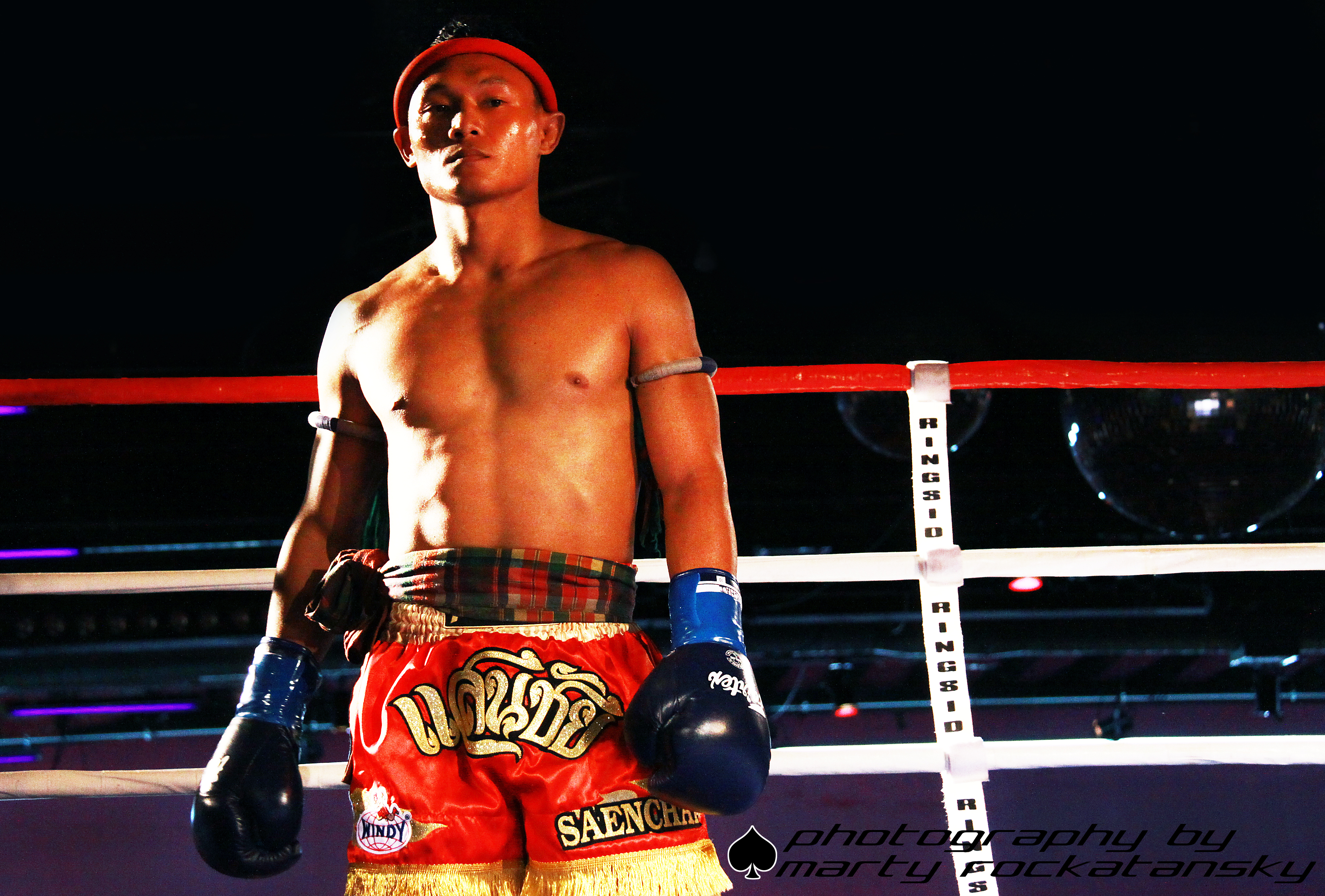 Saenchai Sor Kingstar vs Tetsuya Yamato in LA.